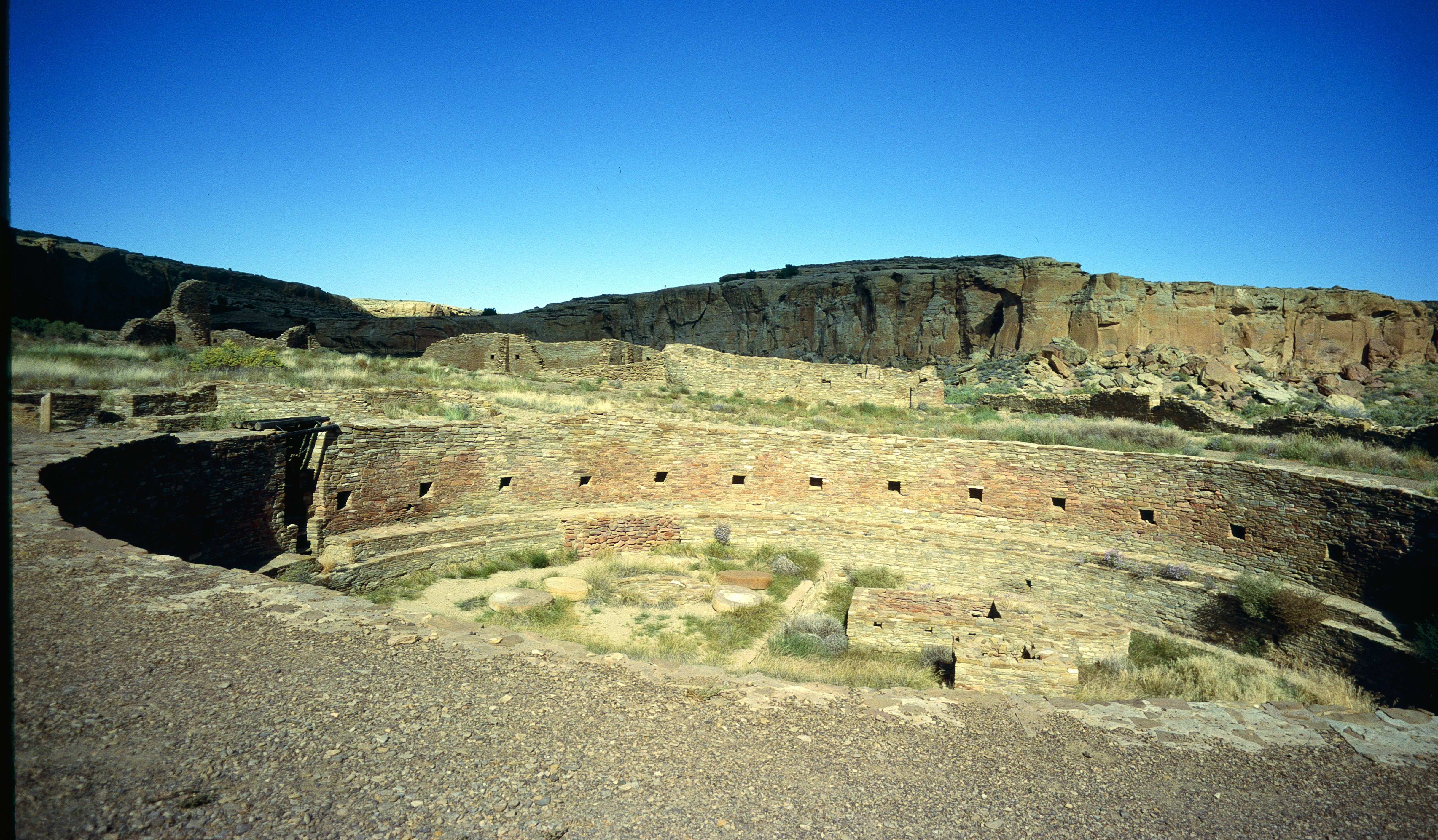 Chetro Ketl, Chaco Canyon, New Mexico, U. S. A.